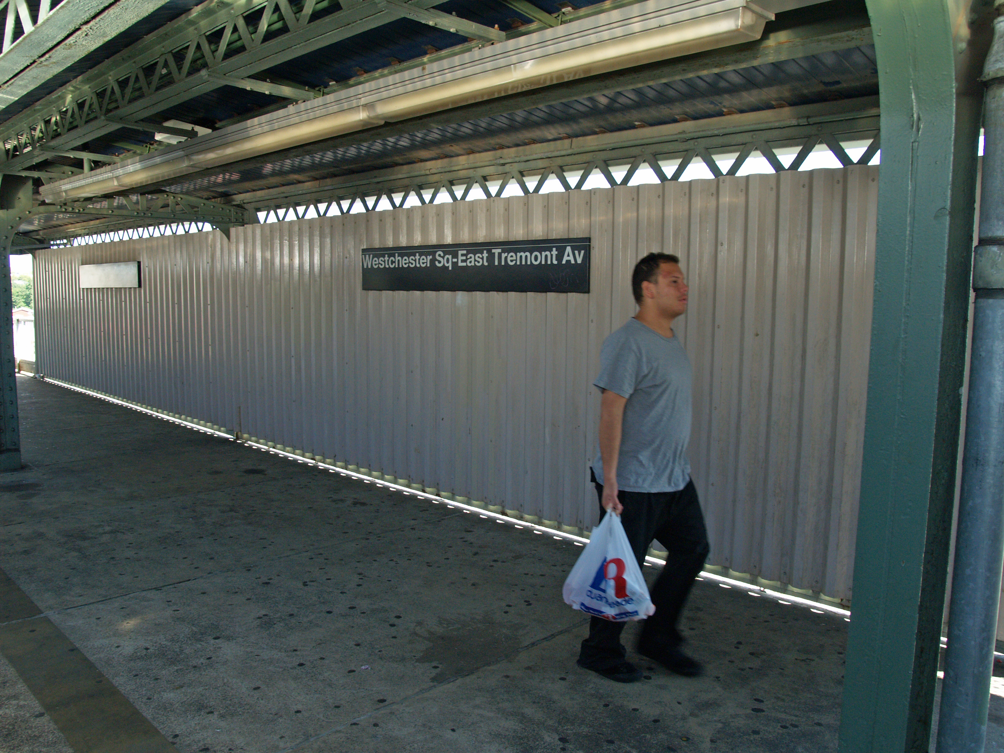 Westchester Square–East Tremont Avenue (IRT Pelham Line) by David Shankbone